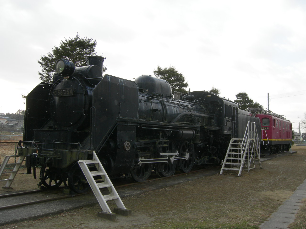 Preserved Class C58 steam locomotive C58 354 and Class ED91 electric locomotive ED91 11 at Morigo Parkin Rifu, Miyagi Prefecture, Japan